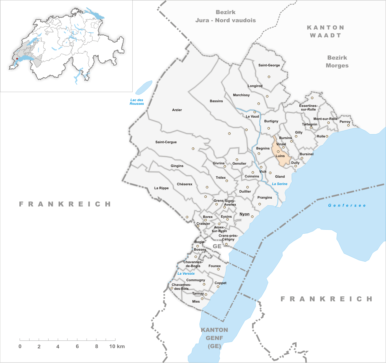 Municipality Luins